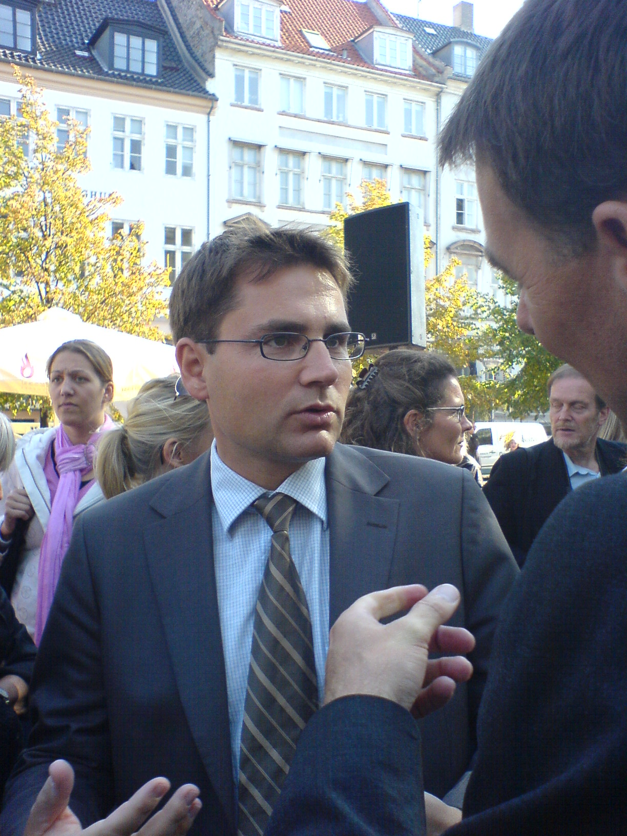 Danish Minister of Culture Brian Mikkelsen